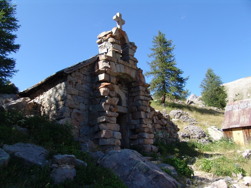 Chaple